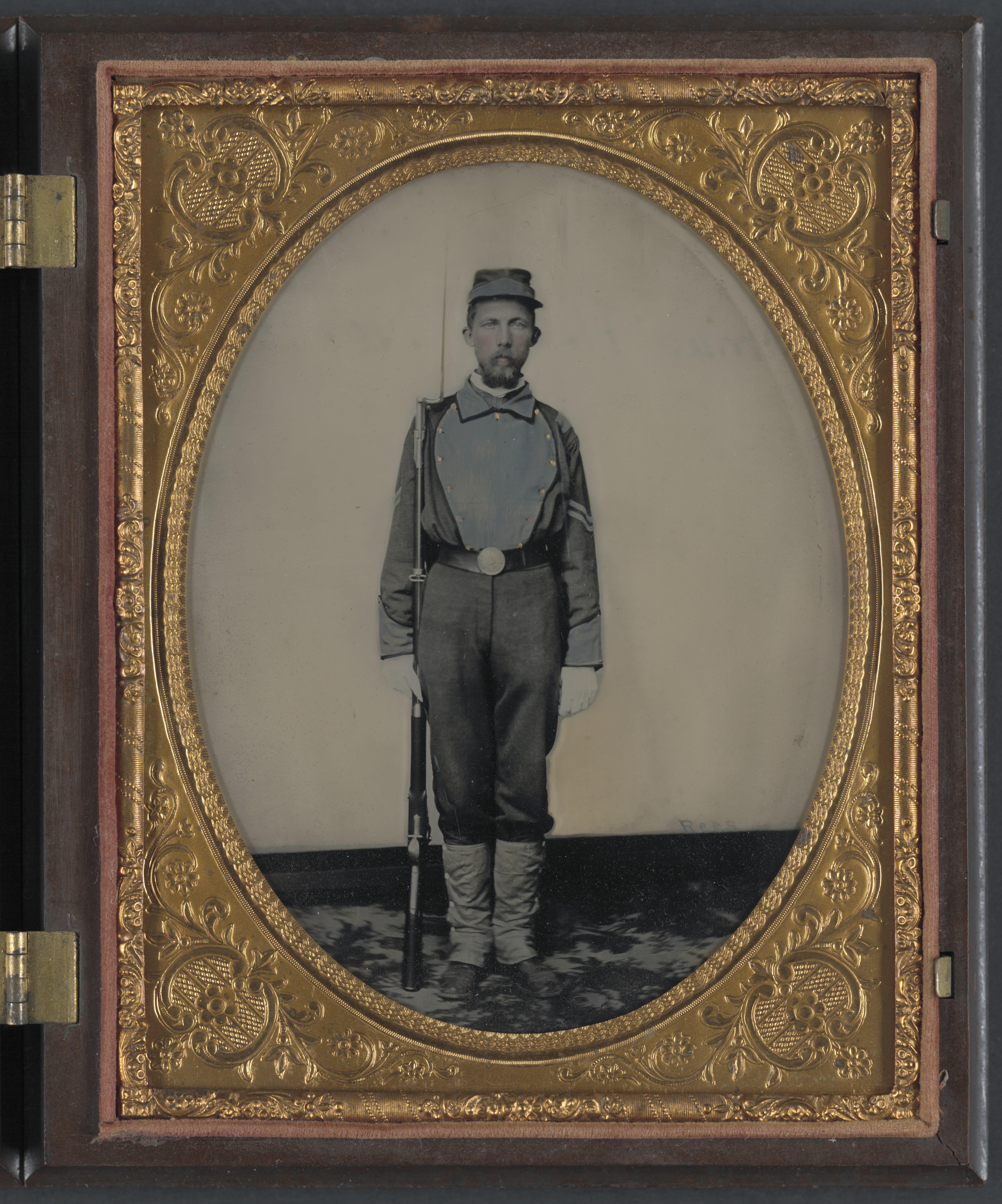 Title: Corporal Samuel H. Overton of A Company, 44th Virginia Infantry Regiment and A Company, 20th Battalion Virginia Heavy Artillery Regiment in uniform and kepi with bayoneted musket] / Rees Abstract/medium: 1 photograph : half-plate ambrotype, hand-colored ; 15.9 x 13.1 cm (case)